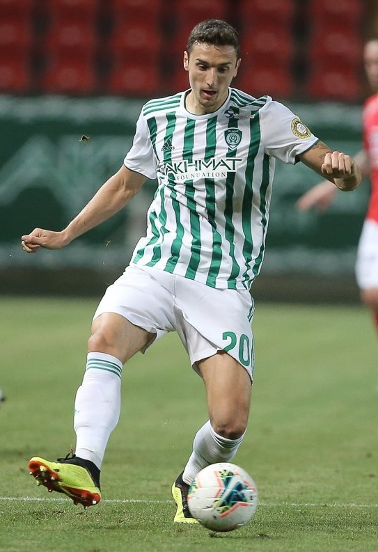 Zoran Nižić with FC Akhmat Grozny in a game against FC Spartak Moscow.